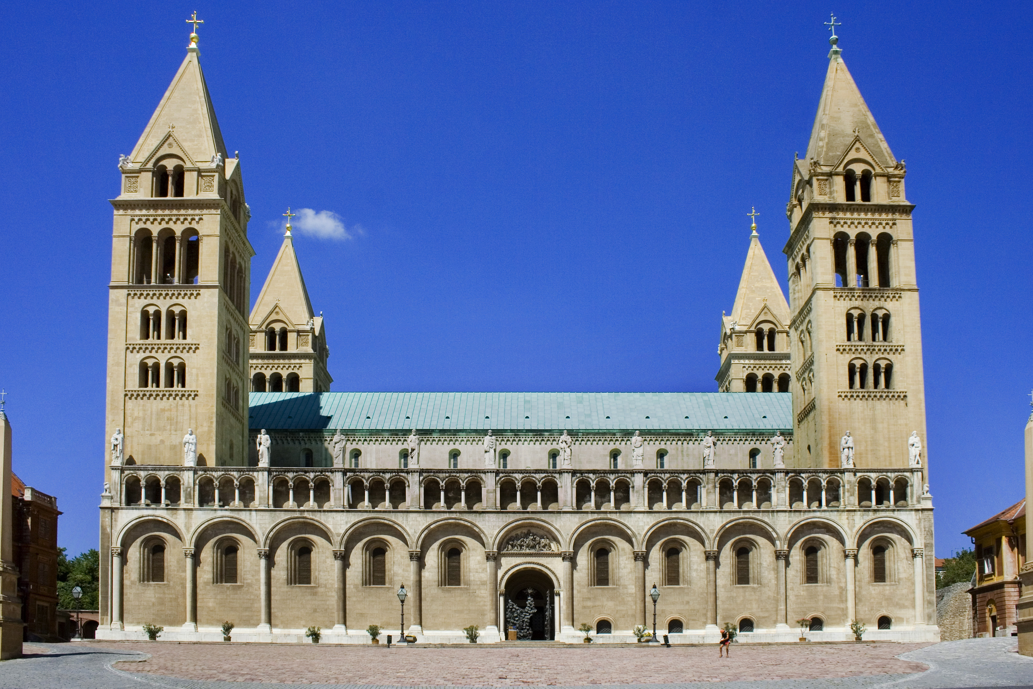 Pécs Cathedral - Hungary. founded in the 11th century, and subsequently much altered. It was rebuilt in the late 19th century in the Neo-Romanesque style. This is a photo of a monument in Hungary, Identifier: 1796